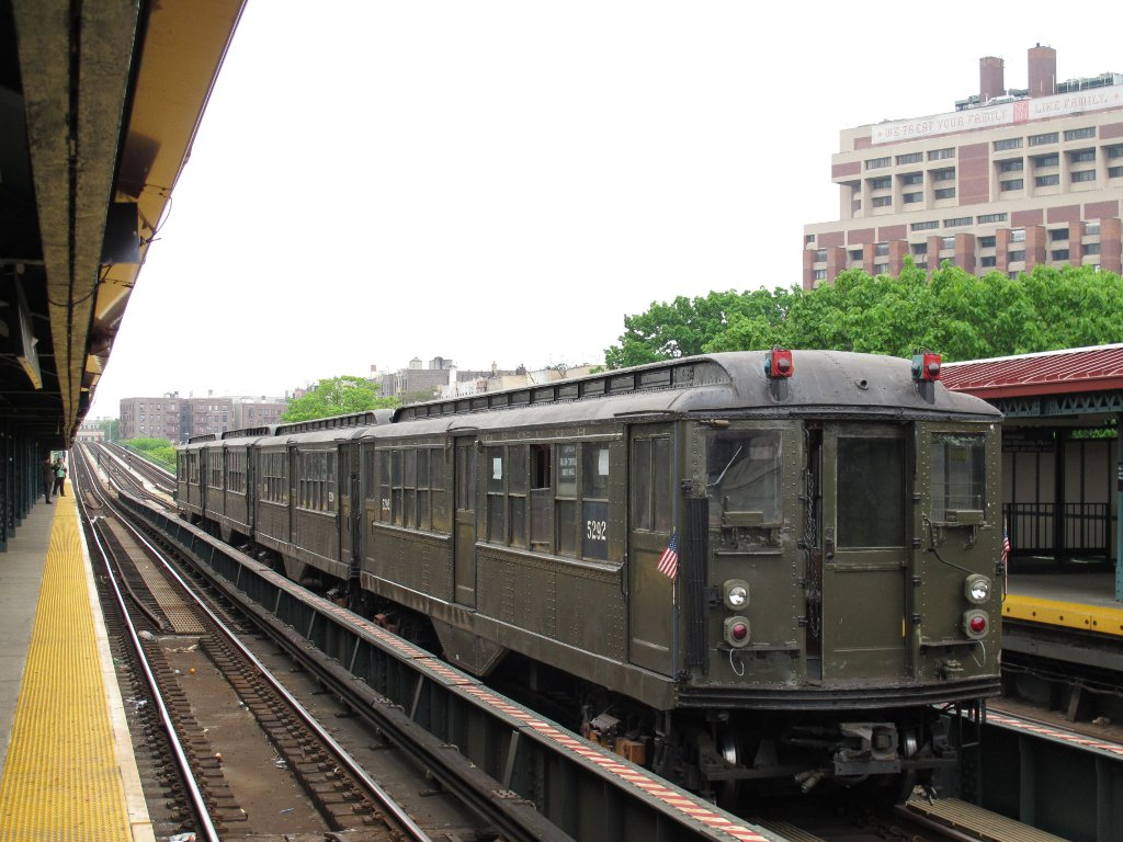 A train composed of former Interborough Rapid Transit Lo-V motor cars lays over on at the Mosholu Parkway station in the Bronx, NY.